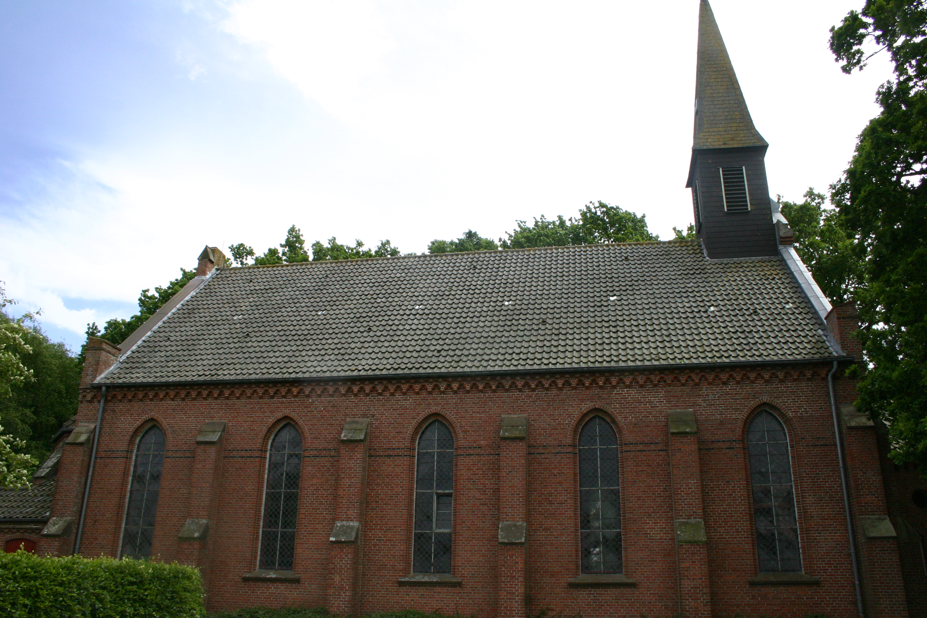 Historic church in Ostgroßefehn, district of Aurich, East Frisia, Germany